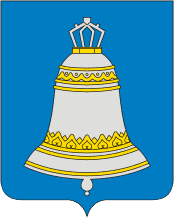 Zvenigorod (Moscow oblast), coat of arms